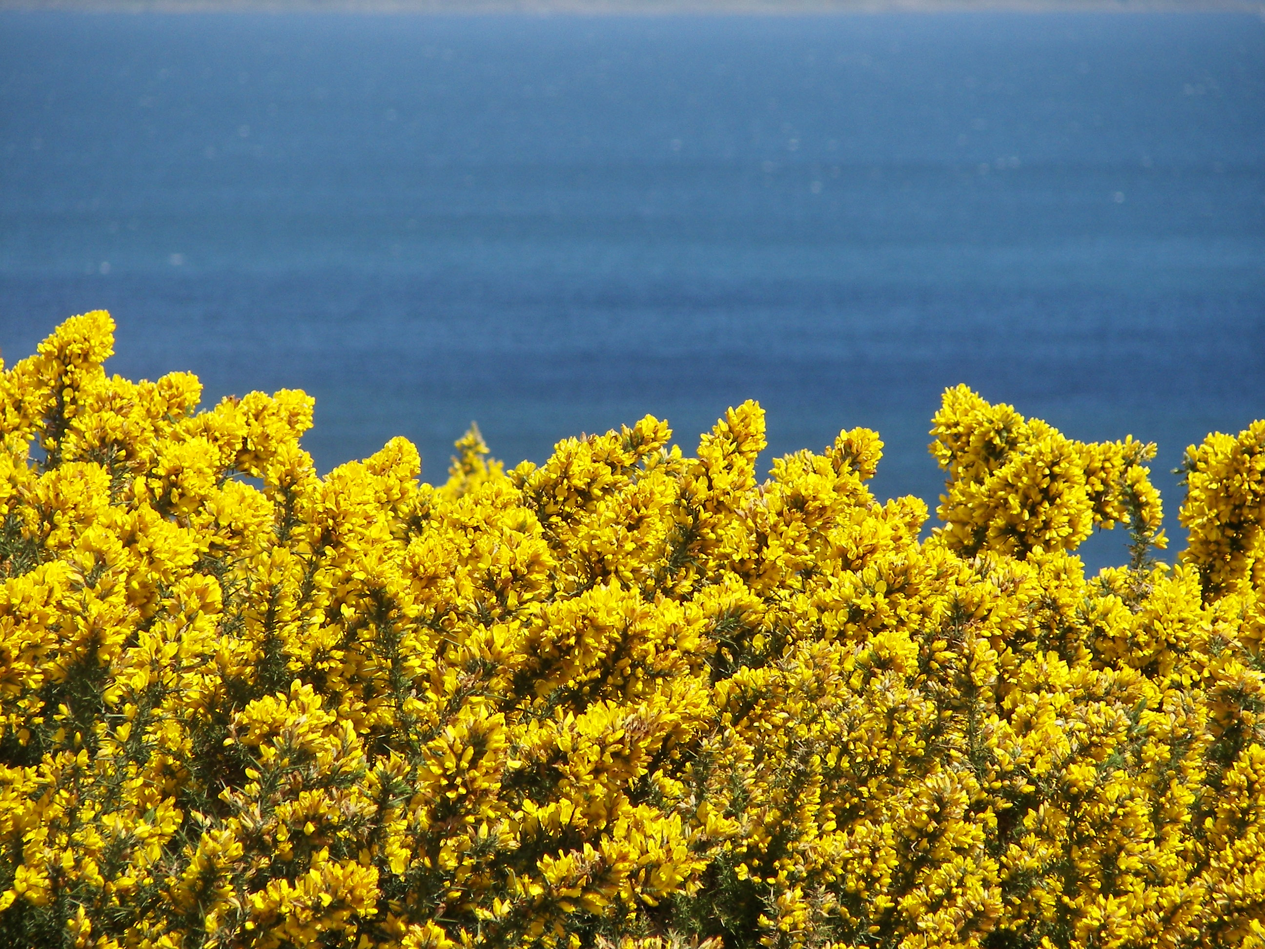 Common Gorse (Ulex europaeus), sea as background, taken on Isle of Arran, Scotland, near Corrie